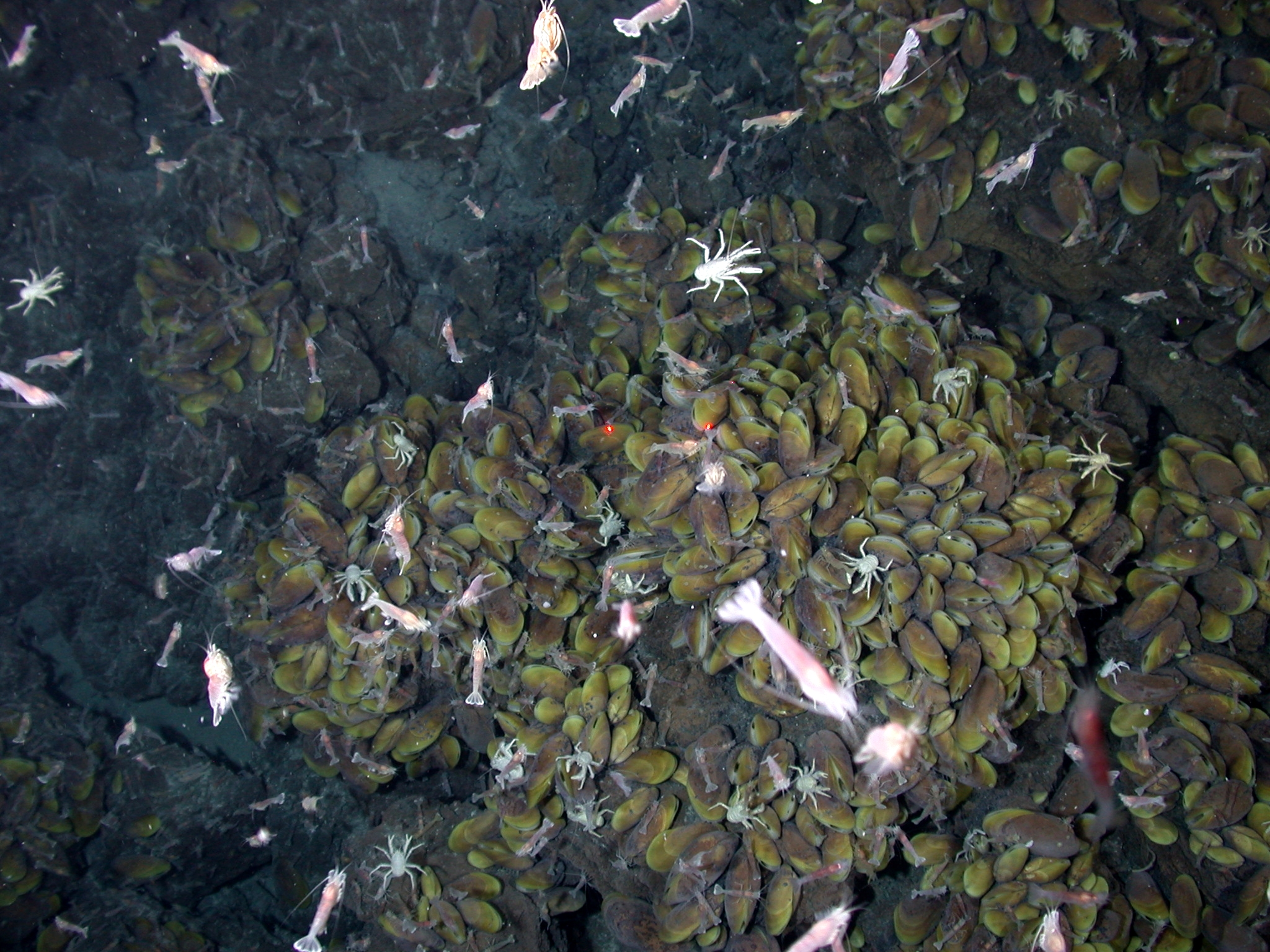 Swimming shrimp, a few squat lobsters, and hundreds of vent mussels.